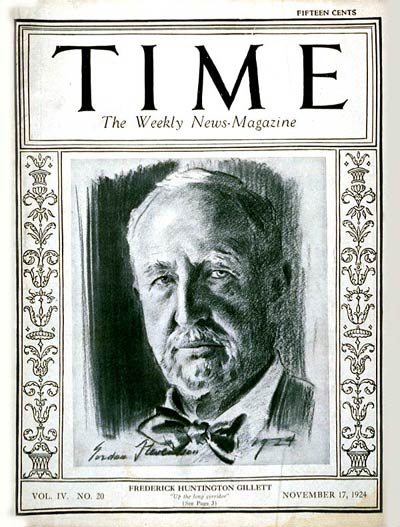 TIME Magazine Cover Featuring Frederick H. Gillett (17 Nov 1924)